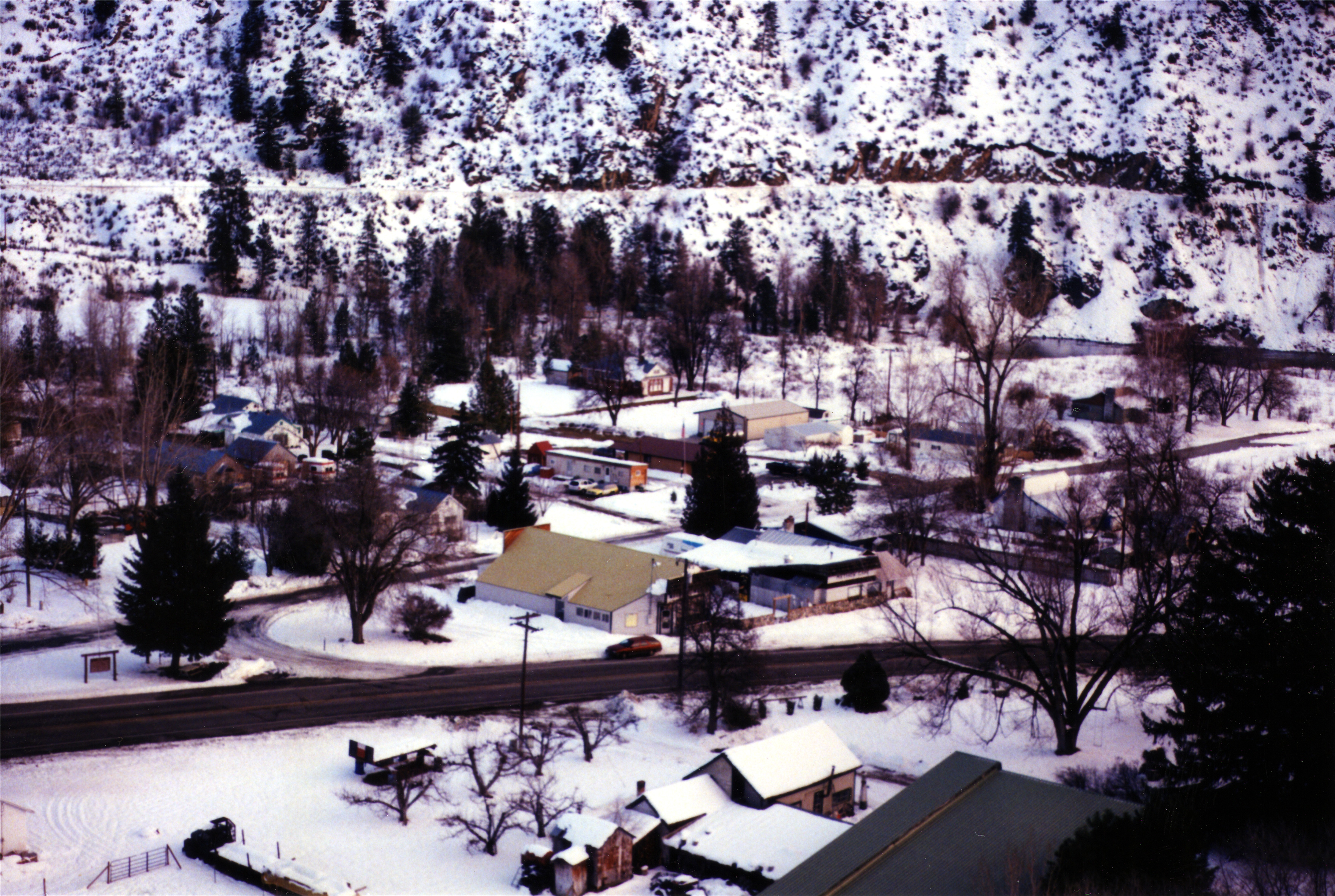 The Town of Methow in winter